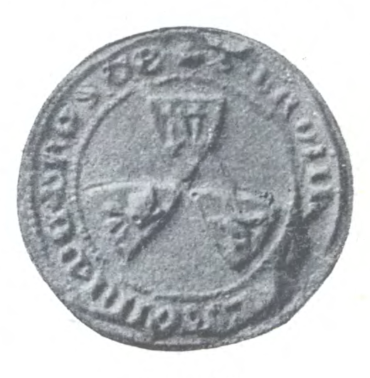 Bronisz ze Służewa (Pomian) Seal (1301-1308)